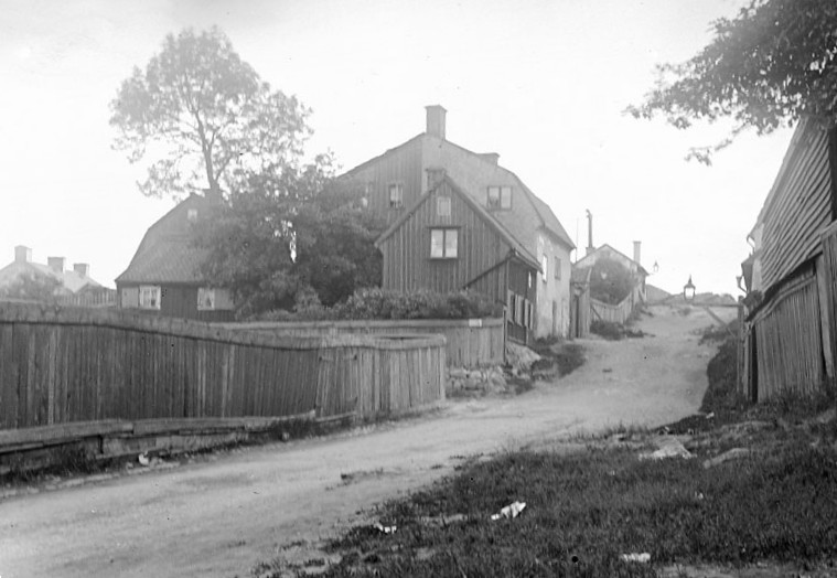 Lundagatan in Stockholm in 1948